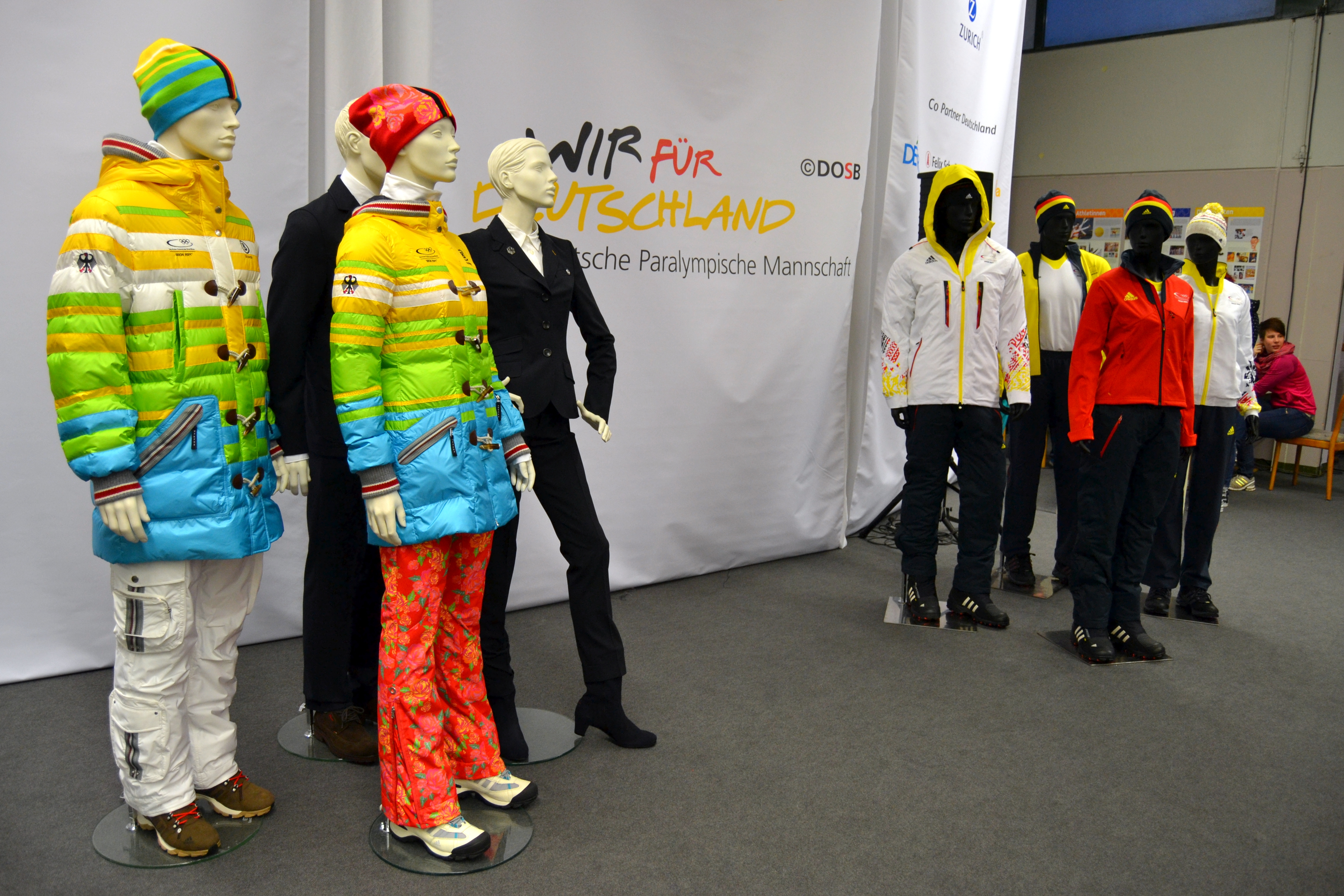 Outfitting the Olympic teams of Germany 2014; Media day January 20th 2014 at Military Airport Erding.